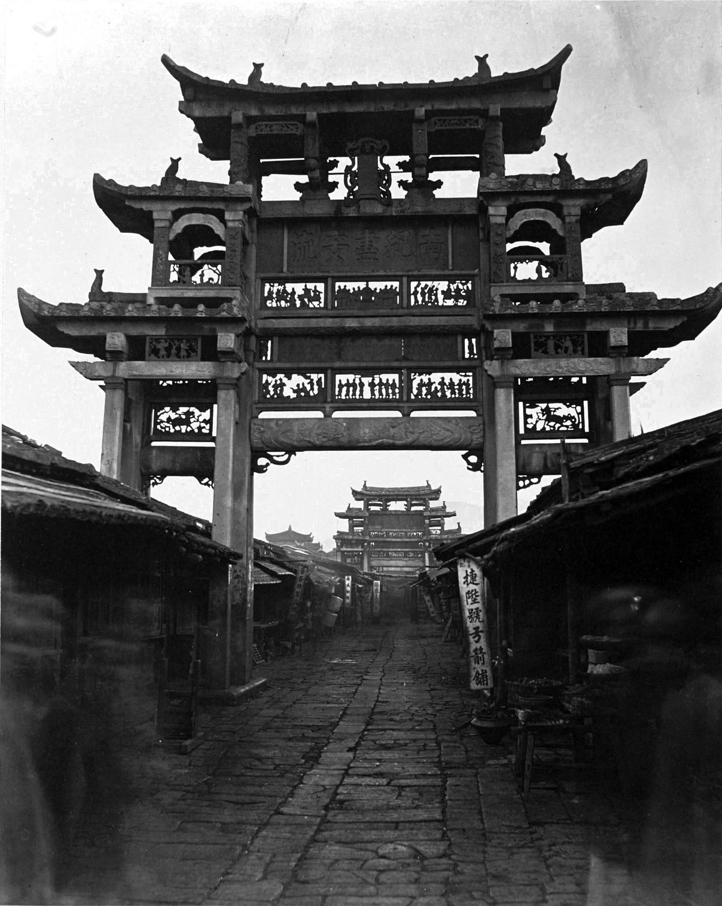 Photograph in From Afong, Photographer. Albumen photograph of an Arch Gate in Quanzhou (formerly Chin-Chew), erected by a Chinese Emperor to honour Chinese Admiral Shi Lang. The Arch is above a commercial street, with a nearby shop sign reading "Jie-Sheng's bowyer and fletcher shop". The gate was later destroyed in the early 1920s by Han Chinese nationalists[1][2].